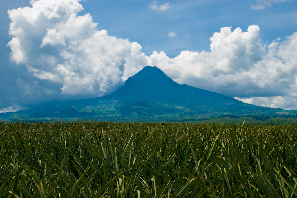 Photograph of Mt. Matutum